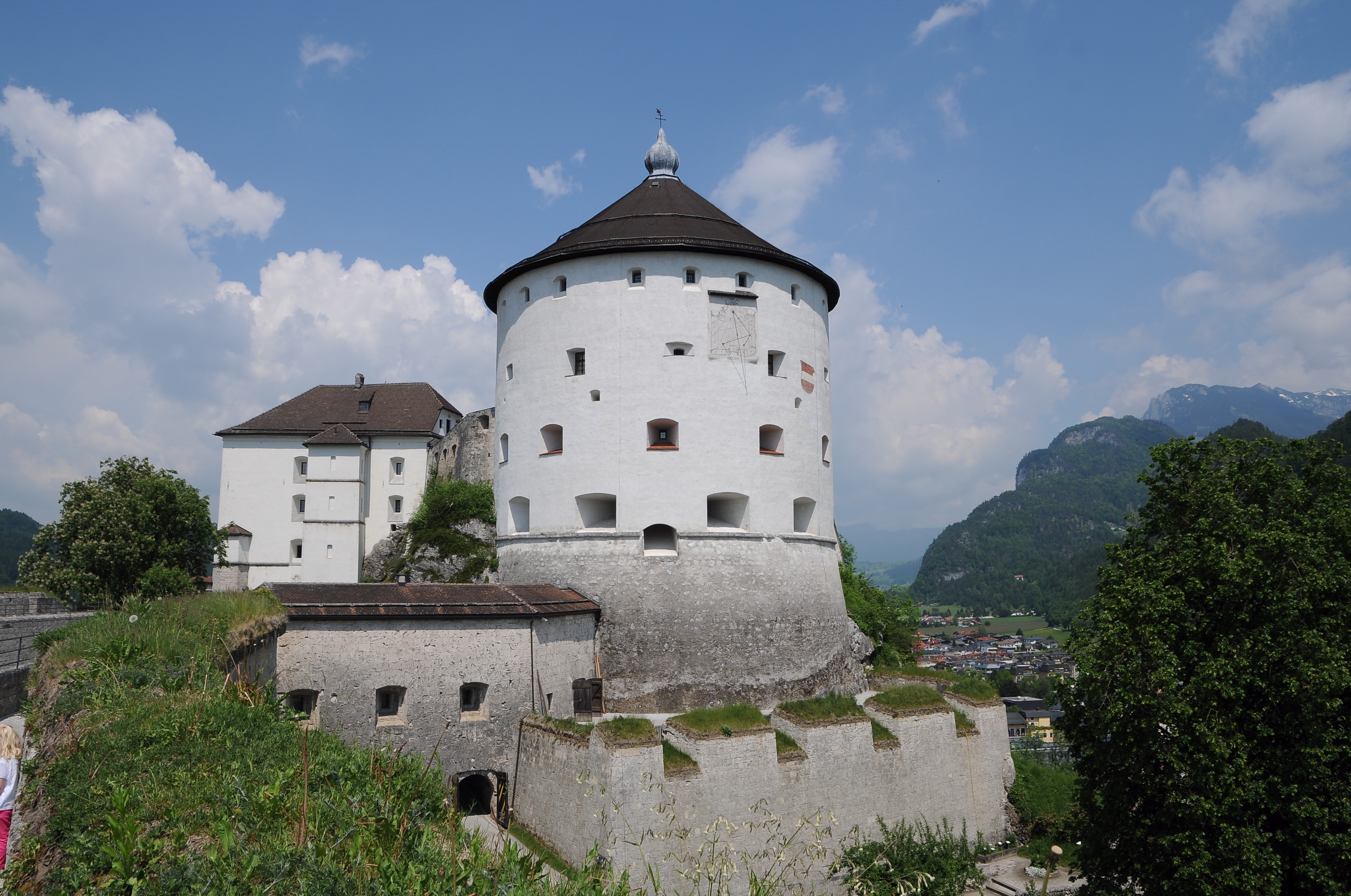 Kufstein Fortress, Tyrol, Austria